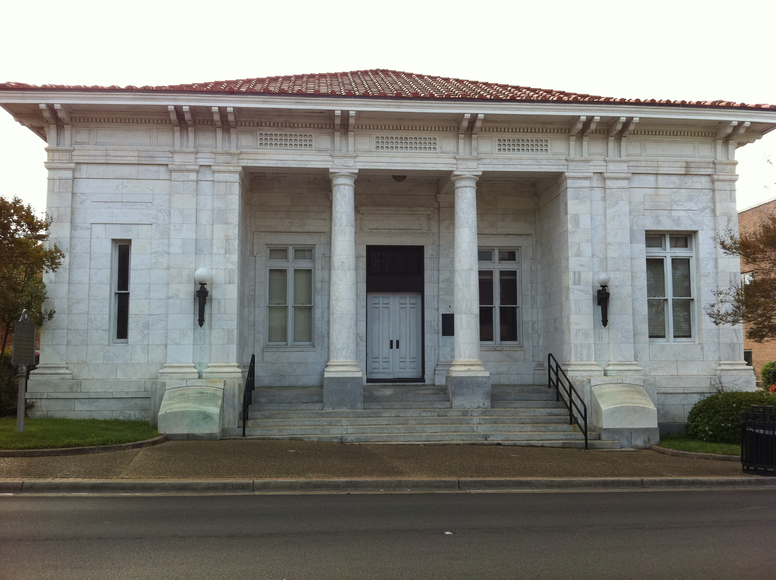 The U.S. District Courthouse in Hattiesburg, Mississippi, listed on the National Register of Historic Places. The building is now the Hattiesburg Municipal Court.